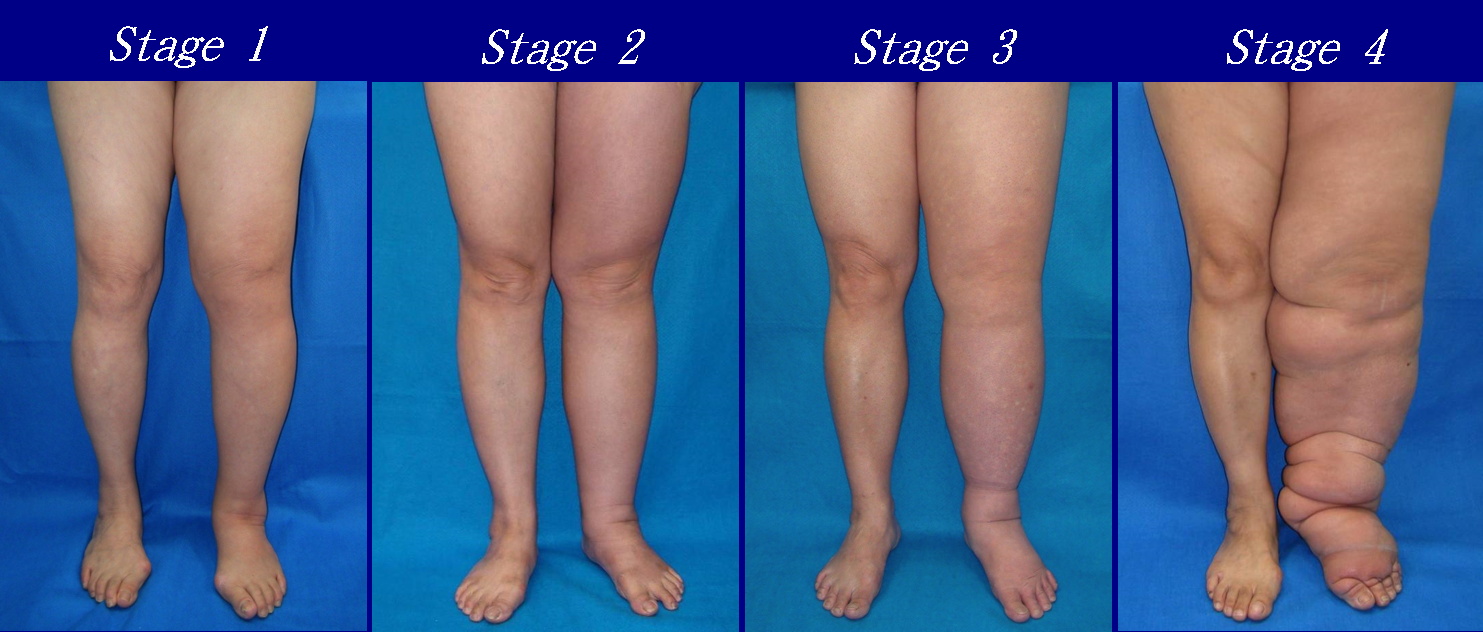 Lymphedema staging for lower limbs